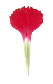 single clawed petal of Dianthus sp.